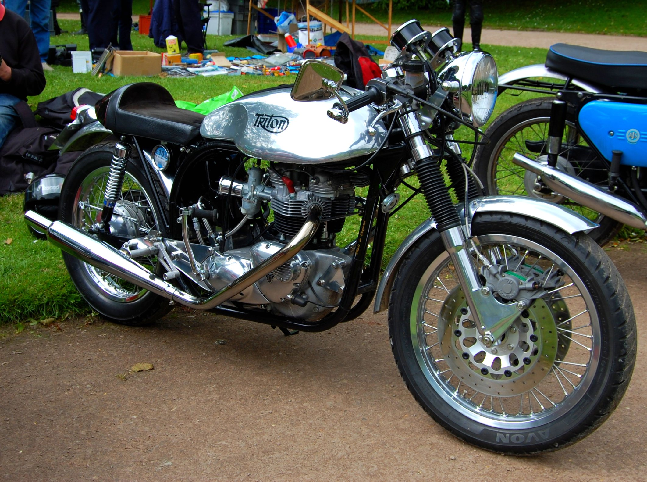 The Triton was a modified Café racer motorcycle of the 1960s-1970s. The name derives from a contraction of Triumph and Norton; the two brands of motorcycle combined. The intention was to combine the best elements of each to give a superior bike to either. The usual practice was to take the Triumph parallel twin engine and use it to replace the engine on a Norton Featherbed framed motorcycle that was regarded as the best handling motorcycle of the day. The Triumph Bonnevilles engine that already had twin carburettors was a popular engine choice. This engine, as well as other Triumph twin-cylinder engines, gave good performance and reliability and could be easily tuned for greater power by the addition of high-profile camshafts, high compression pistons and twin carburettors or fuel injectors amongst the more common power contributing modifications. There was also a Weslake 8 valve head available for the Triumph. The Norton 650 and 750 vertical twin engines had a reliability problem. At about 7000 rpm the piston exceeds the engineering limit for piston speed, so over-revvers soon destroyed their engines. The BSA 650 had a bronze bush main bearing on the right hand side, doubling as the crank oil feed, with a lack of effective crankshaft end play control, that all had difficulty staying together when thrashed, even though the rest of the design was possibly better than the Triumph. The Triumph vertical twin used a ball on the timing side, and a roller on the other, with the oil feeding through a separate bronze bush in the outer right hand engine side cover. The Triumph was the pick of the bunch.